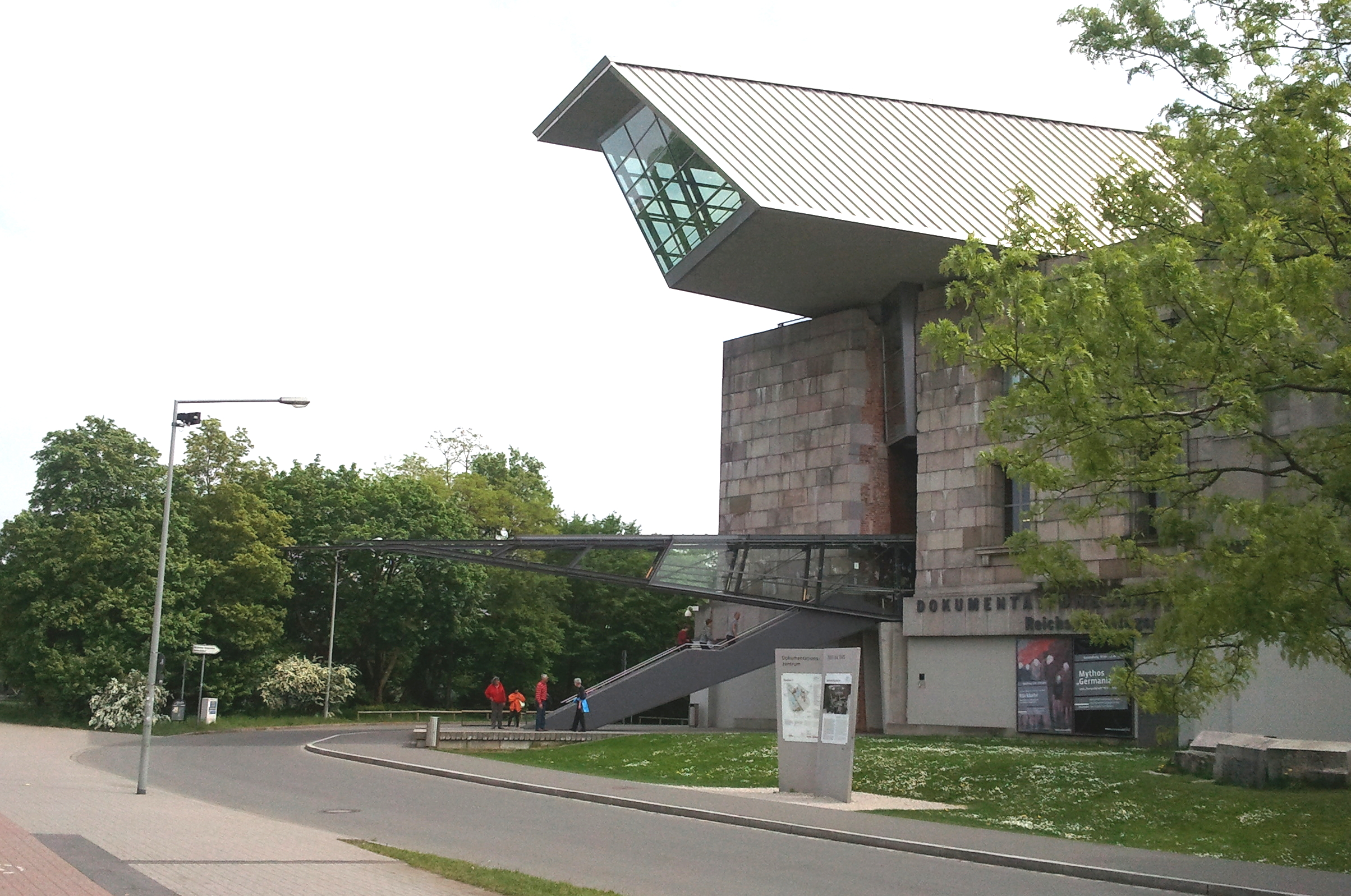 Entrance of the Documentation Center Nazi Party Rally Grounds in Nuremberg, May 2011.